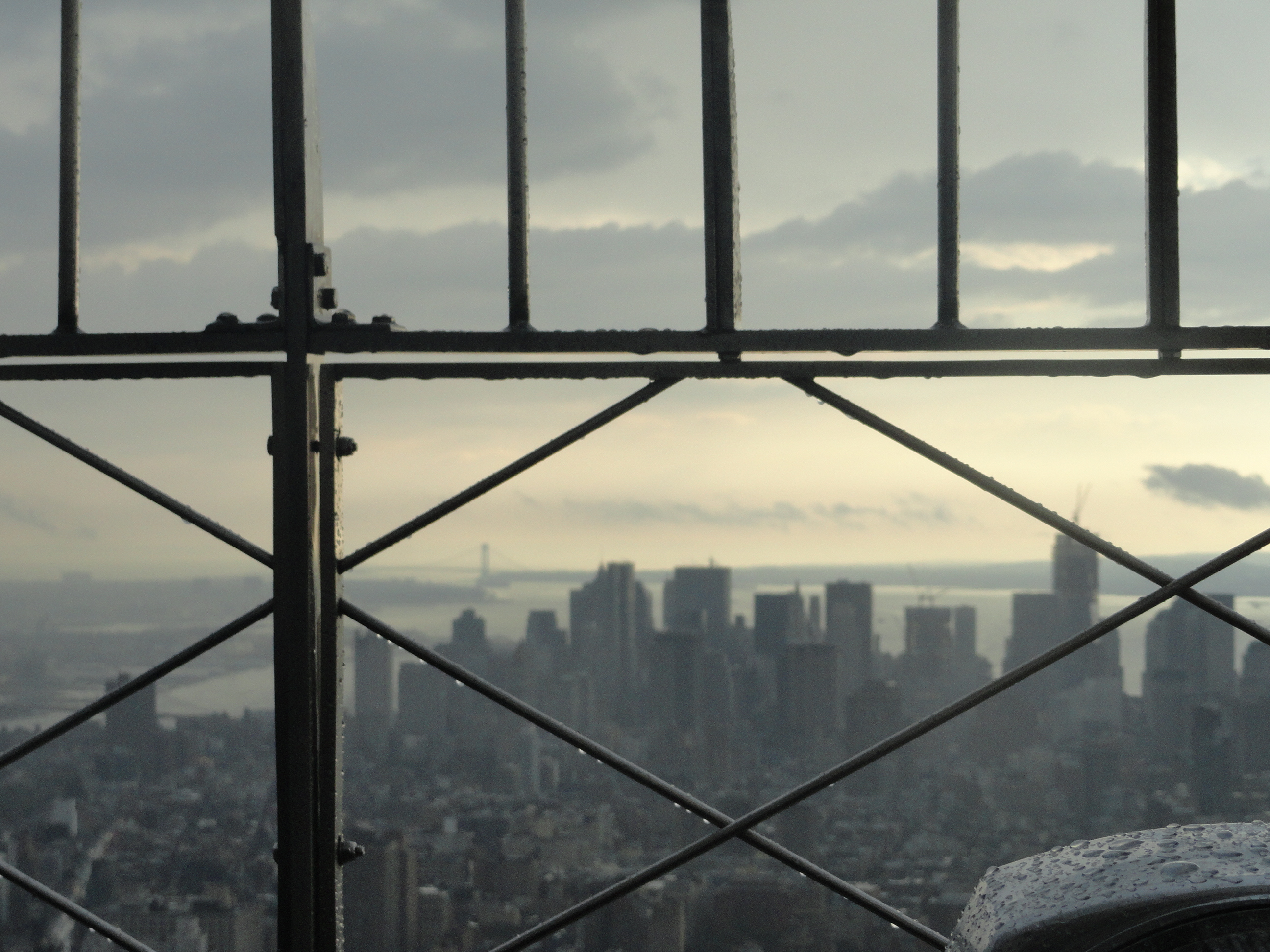 Check out my travel blog at goo.gl/so3op0 for great travel tips and posts. This is Day view from Empire State Building observatory in Manhattan, New York City, United States